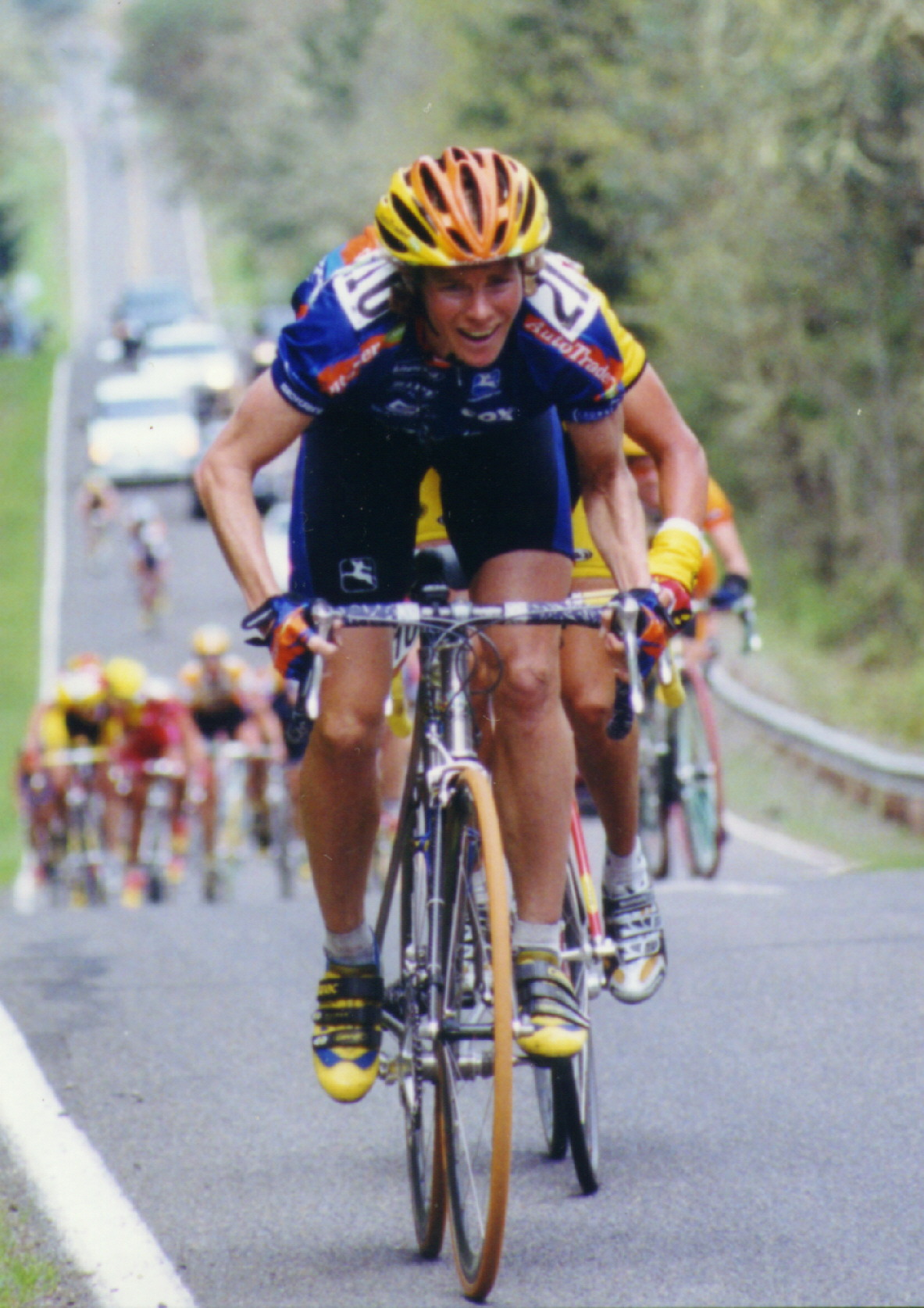 Tina Pic (nee Mayolo) nearing the finish line at the top of the climb during the Greenhill Road Race (2000 Tour of Willamette).